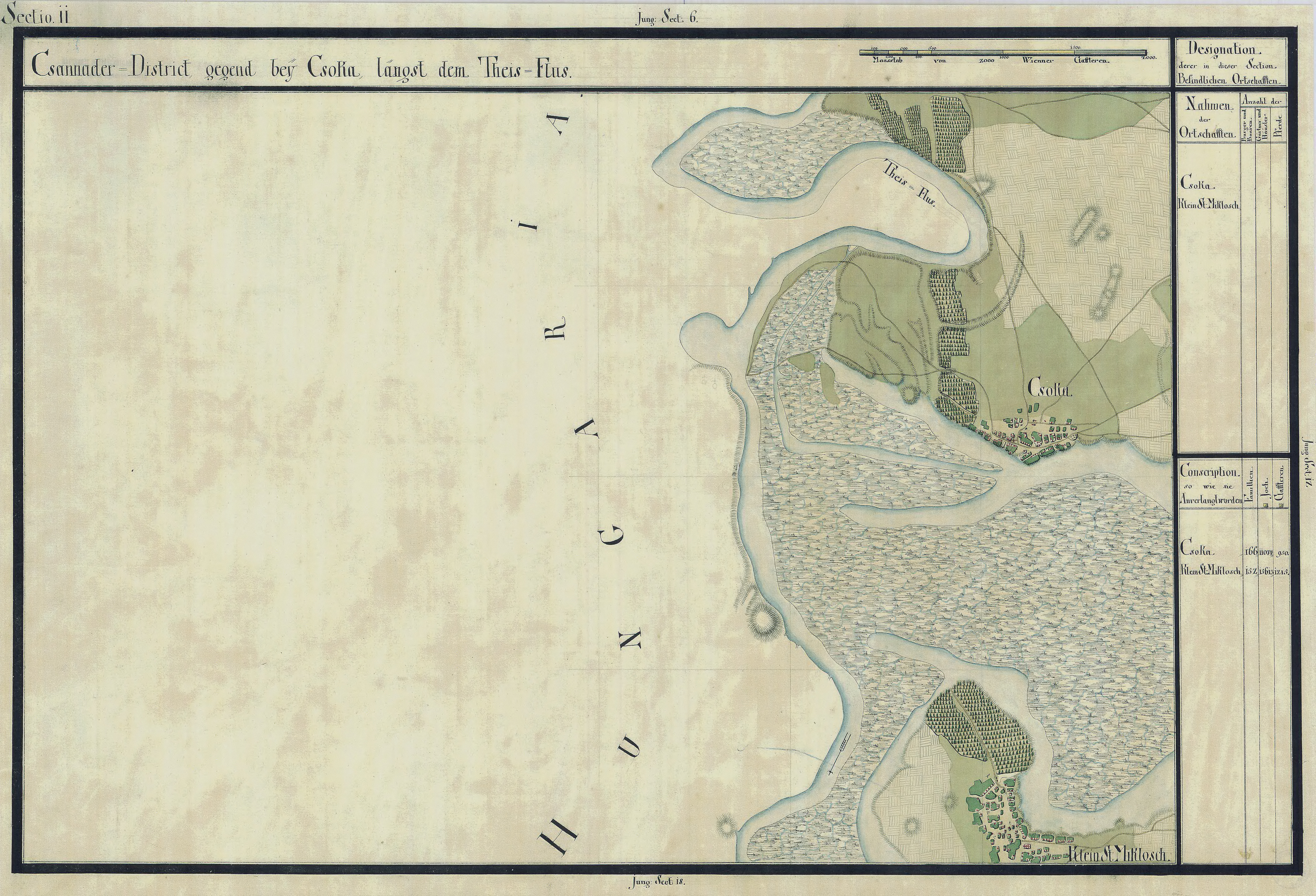 The Banat region in the cadastral maps: Josephinische Landesaufnahme, 1769-72. Josephinische Landaufnahme pg011